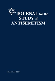 Cover image of the Journal for the Study of Antisemitism, used with permission from the editor, Steven K. Baum.